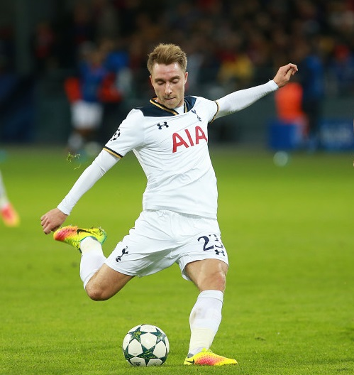 Eriksen in action during CSKA Moscow - Tottenham in 2016.